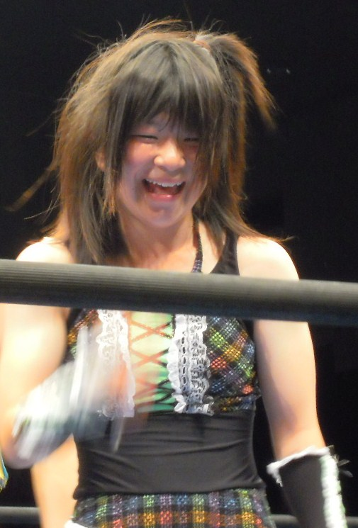 Japanese professional wrestler,Tsukushi.Sep 23 2010 Ice Ribbon Korakuen Hall.